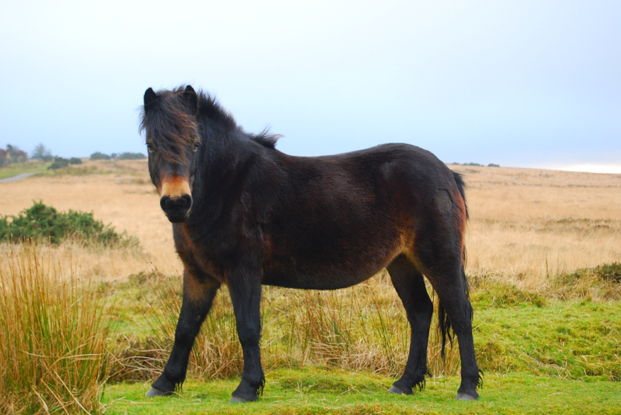 An Exmoor pony in its native habitat on Exmoor